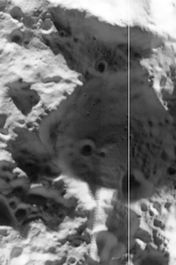 Derivative image. Giant zoom-in on lunar south pole's Haworth Crater.